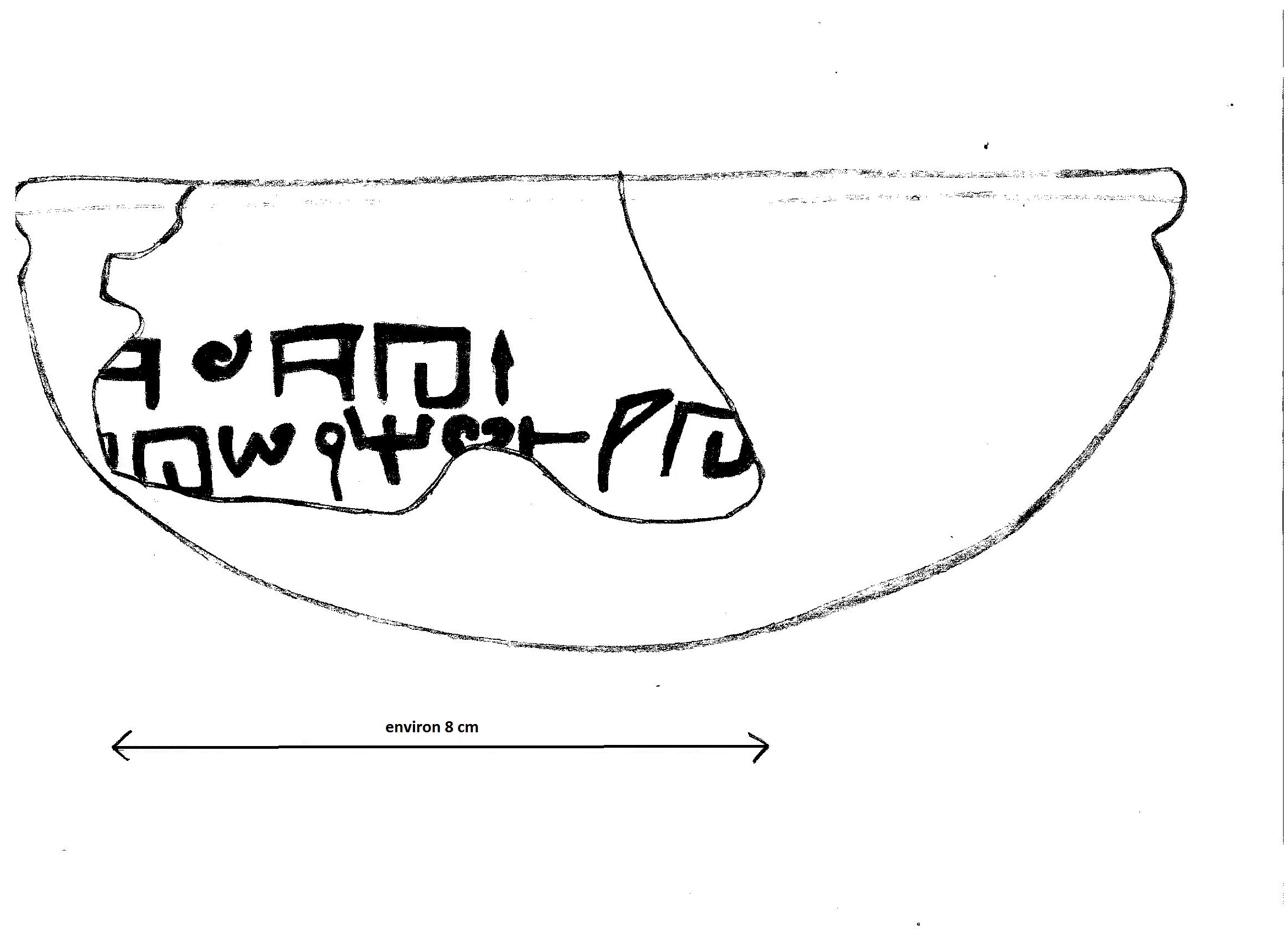 lakish jug ostraca